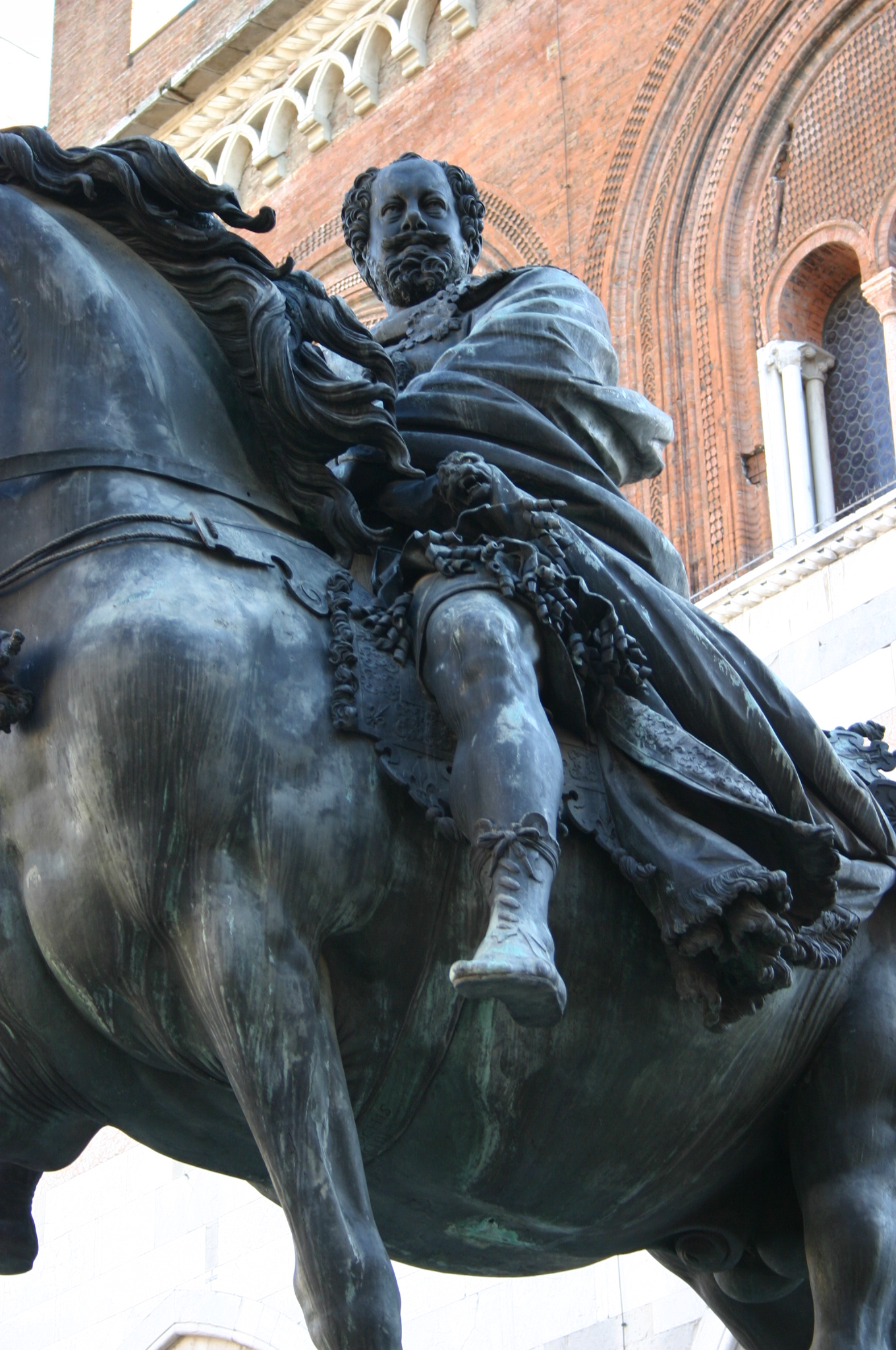 Detail from the bronze monument (dating from 1615) to Ranuccio I Farnese, duke of Parma and Piacenza, was created by Francesco Mochi (1580-1654). It stands in the main square, "Piazza dei cavalli", in Piacenza, Italy. Picture by Giovanni Dall'Orto, July 14 2007.